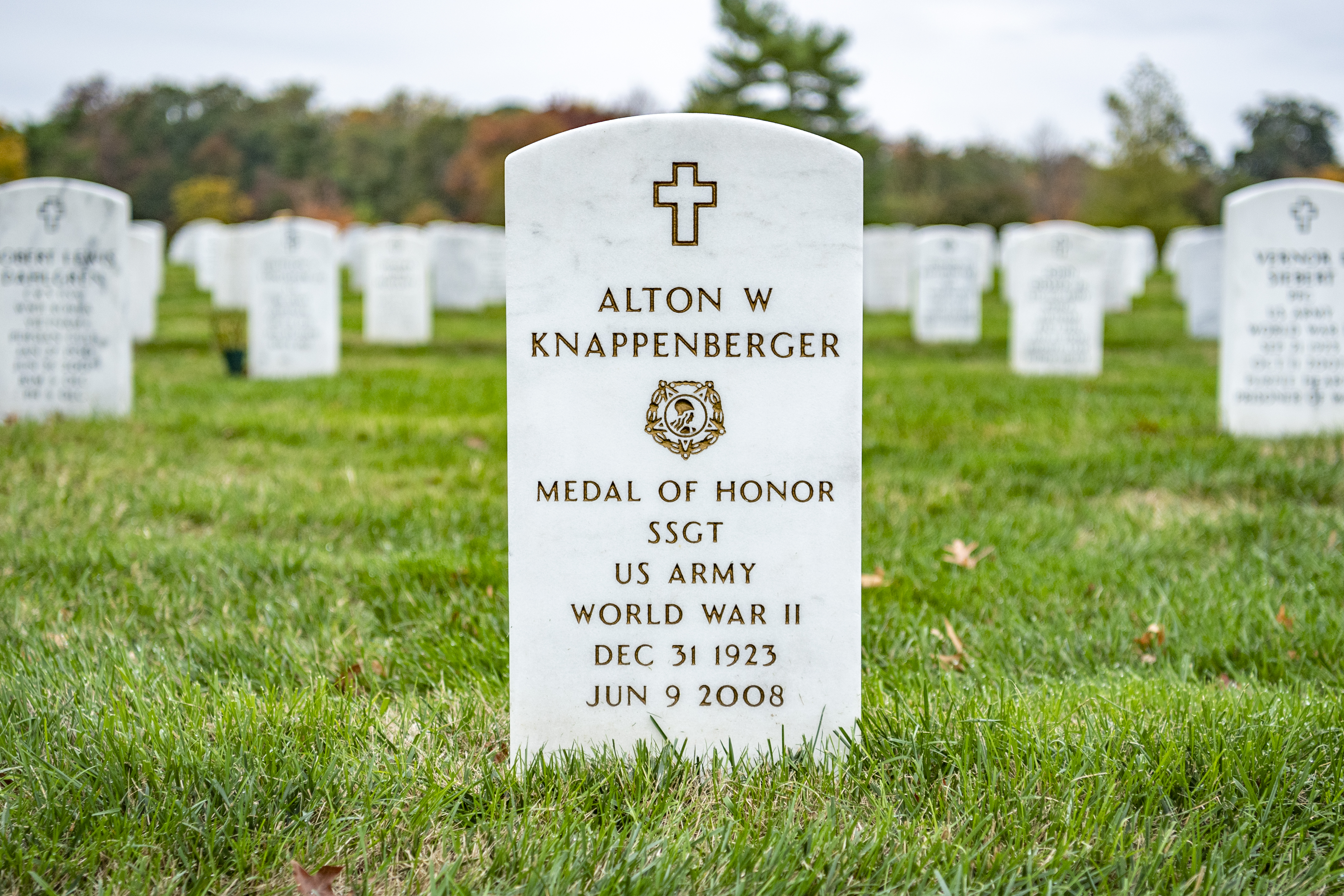 Headstone of U.S. Army Staff Sgt. Alton Knappenberger in Section 59 of Arlington National Cemetery, Arlington, Virginia, Oct. 30, 2019. (U.S. Army photo by Elizabeth Fraser / Arlington National Cemetery / released)